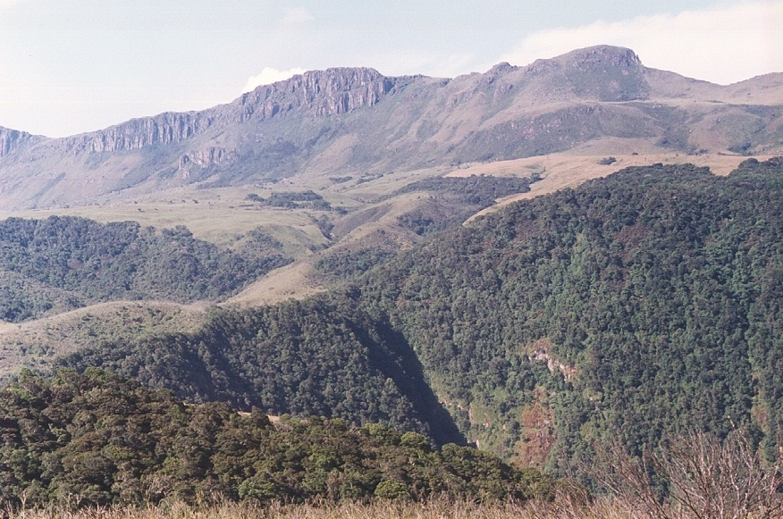 The main Nyanga biomes: Montane forest in the gorge and valleys in the foreground, rolling moorland in the middleground and Mount Nyangani forming the skyline.